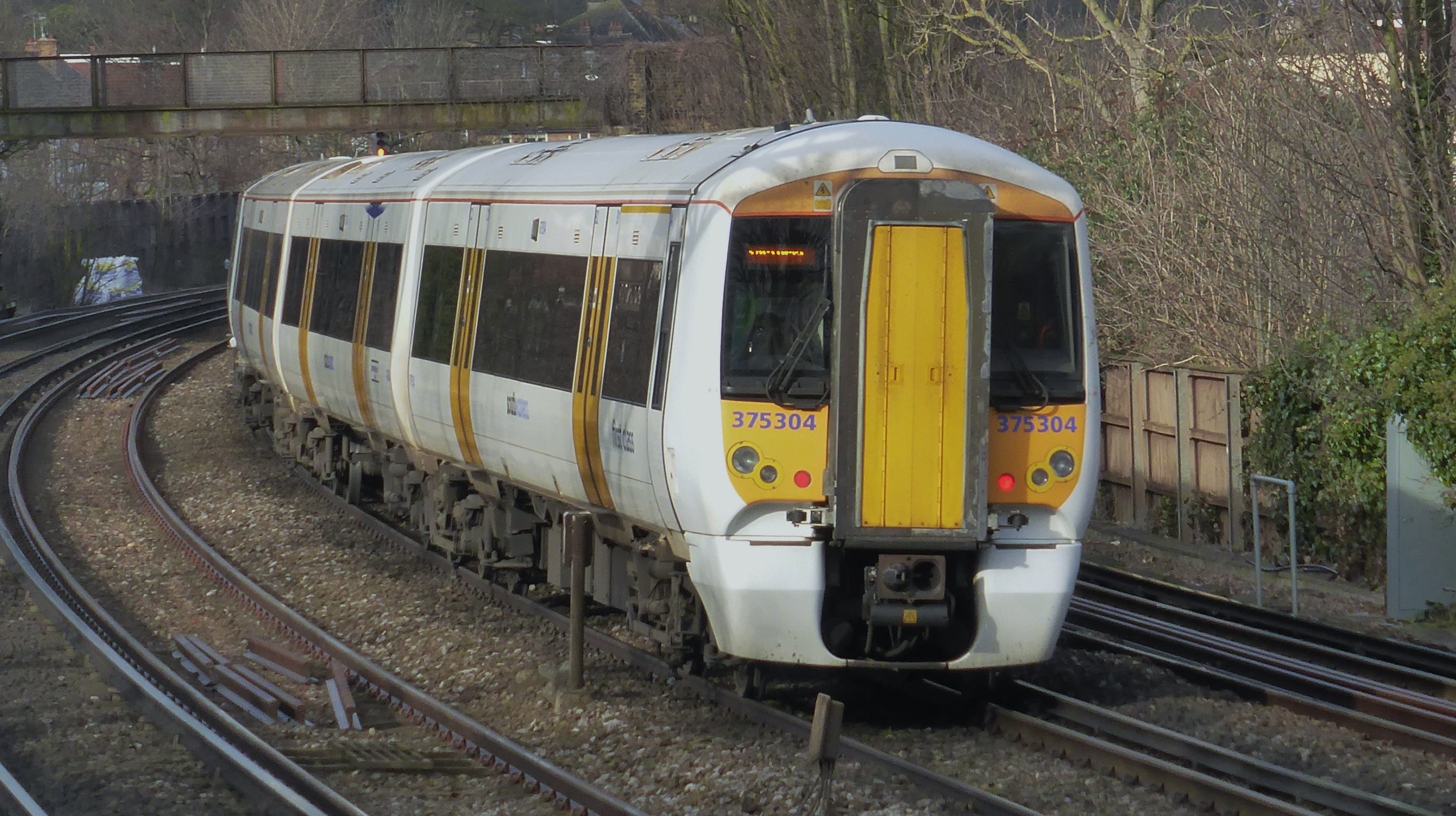 According to Realtime Trains the route and timings were; Rainham [RAI] 1..................0953........................0953 1/2......................RT Gillingham [GLM] 2...........0957/0958 1/2.......0958 3/4/0959 3/4...1L Chatham [CTM] 1...............1002/1003...............1002 1/2/1003 1/4......RT Rochester [RTR] 2.............1004 1/2/1005 1/2..1005/1006 1/4............RT Rochester Bridge Jn........1007 1/2...................1007 3/4......................RT Sole Street [SOR] 1............1015..........................1014...............................1E Fawkham Junction ..........1022 1/2...................1022 1/4.......................RT Swanley [SAY] 3................1026 1/2...................1027.............................RT St Mary Cray Junction.....1030.........................1029 1/4.......................RT Bickley Junction[XLY]......1031...........................1030 1/4.......................RT Bromley South [BMS] 3...1033 1/2/1035.........1033 1/4/1034 3/4......RT Shortlands [SRT]................1036 1/2...................1036 1/4.......................RT Shortlands Junction.........1036 1/2...................1037 1/4.......................RT Beckenham Junction 2...1038..........................1038.............................RT Kent House [KTH] 2.........1039..........................1039.............................RT Herne Hill [HNH] 2............1043 1/2...................1044.............................RT Brixton [BRX]......................1044 1/2...................1045 1/4.......................RT Voltaire Road Junction....1046..........................1046 1/2.......................RT London Victoria [VIC] 2...1051..........................1052..............................1L